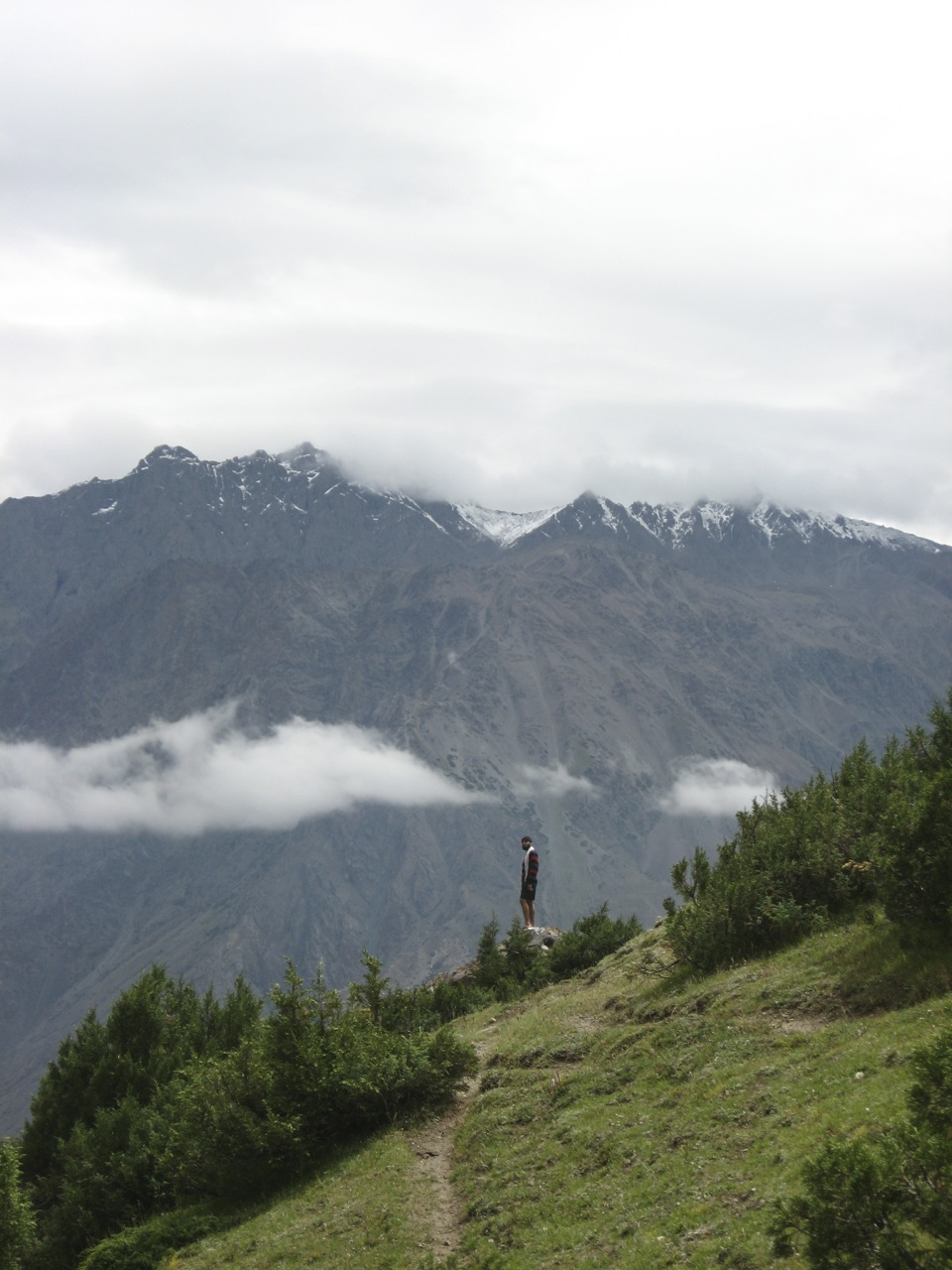 Image taken while moving toward Burji La pass